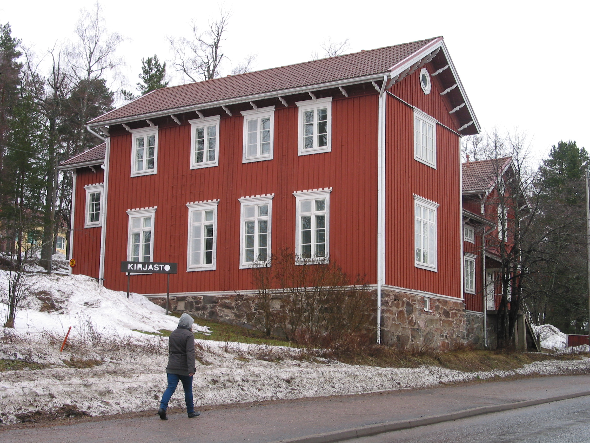 Karjalohja Library, Finland